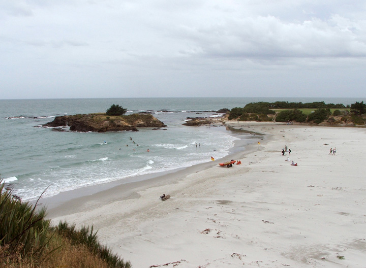 Brighton Beach, Otago, New Zealand. Photographed January 2006.